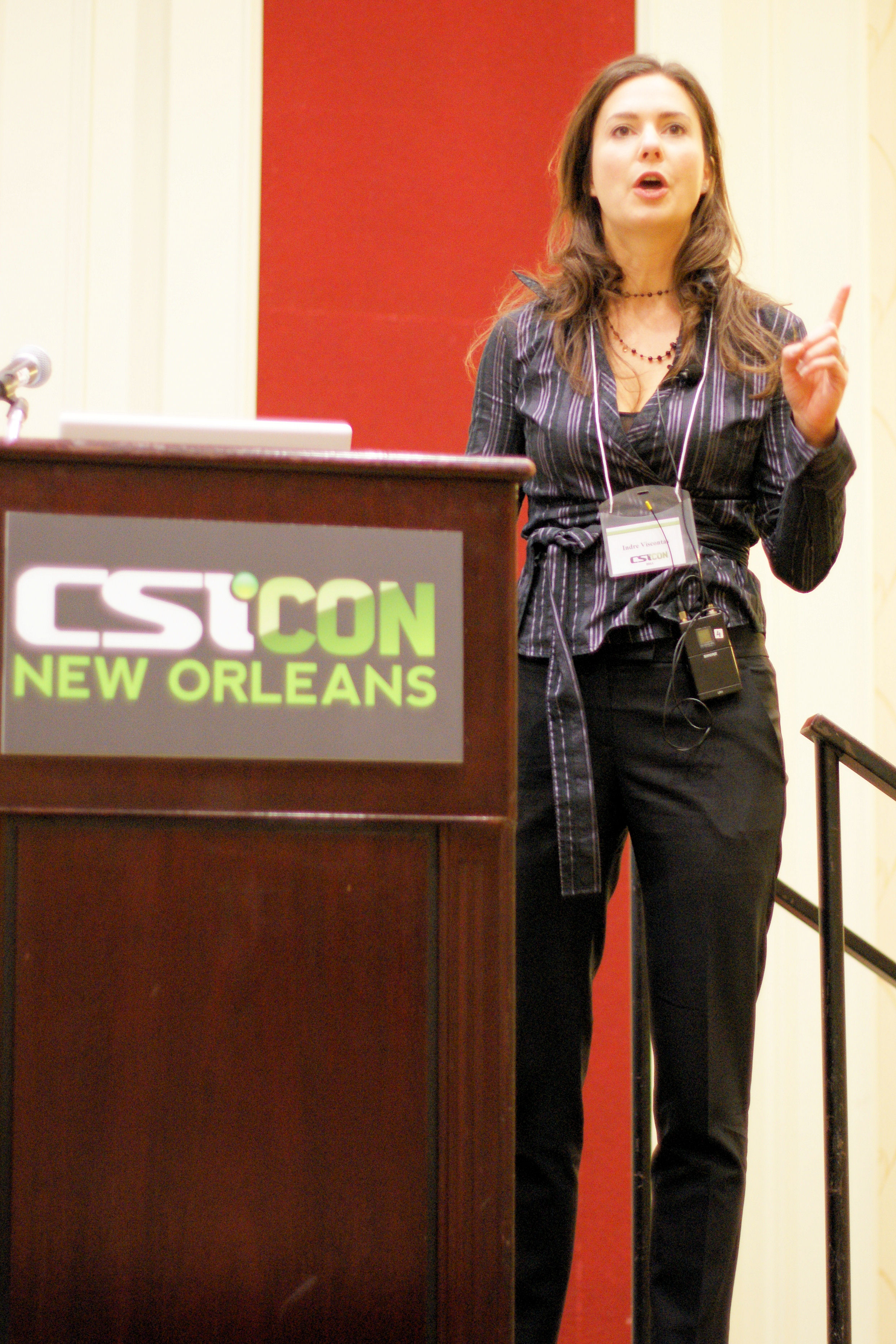 Dr. Indre Viskontas speaking during the Skepticism and the Media Panel at CSICon 2011. New Orleans, LA. Oct 29, 2011.